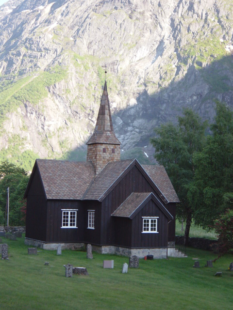 Rauma and the Kors kirke